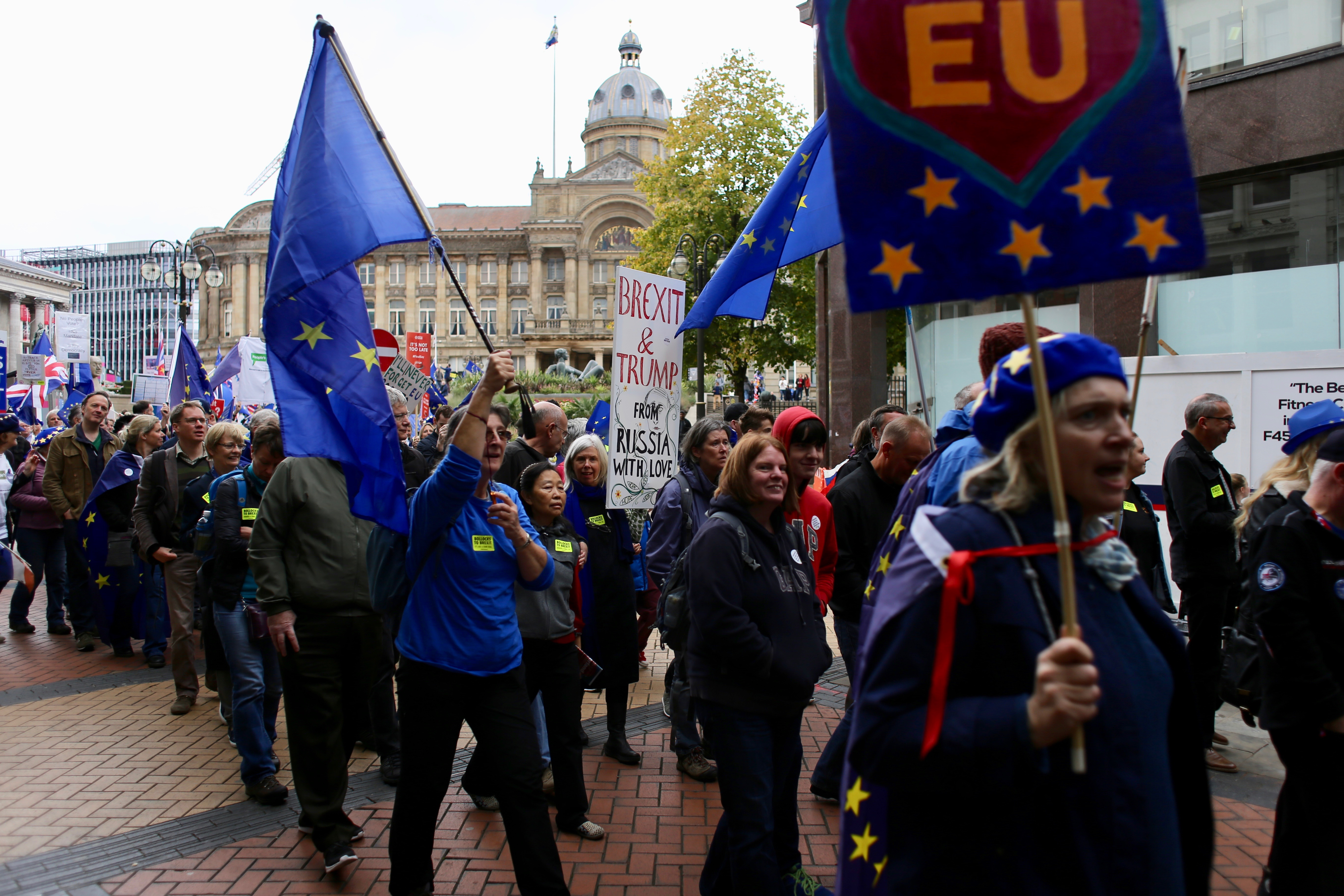 Birmingham Bin Brexit march for a People's Vote on leaving the European Union to coincide with the Conservative Party conference being held in the city. Speakers included AC Grayling, Lord Andrew Adonis, Femi Oluwole, #Remainer Now and Tories Against Brexit. Organised by EU in Brum.